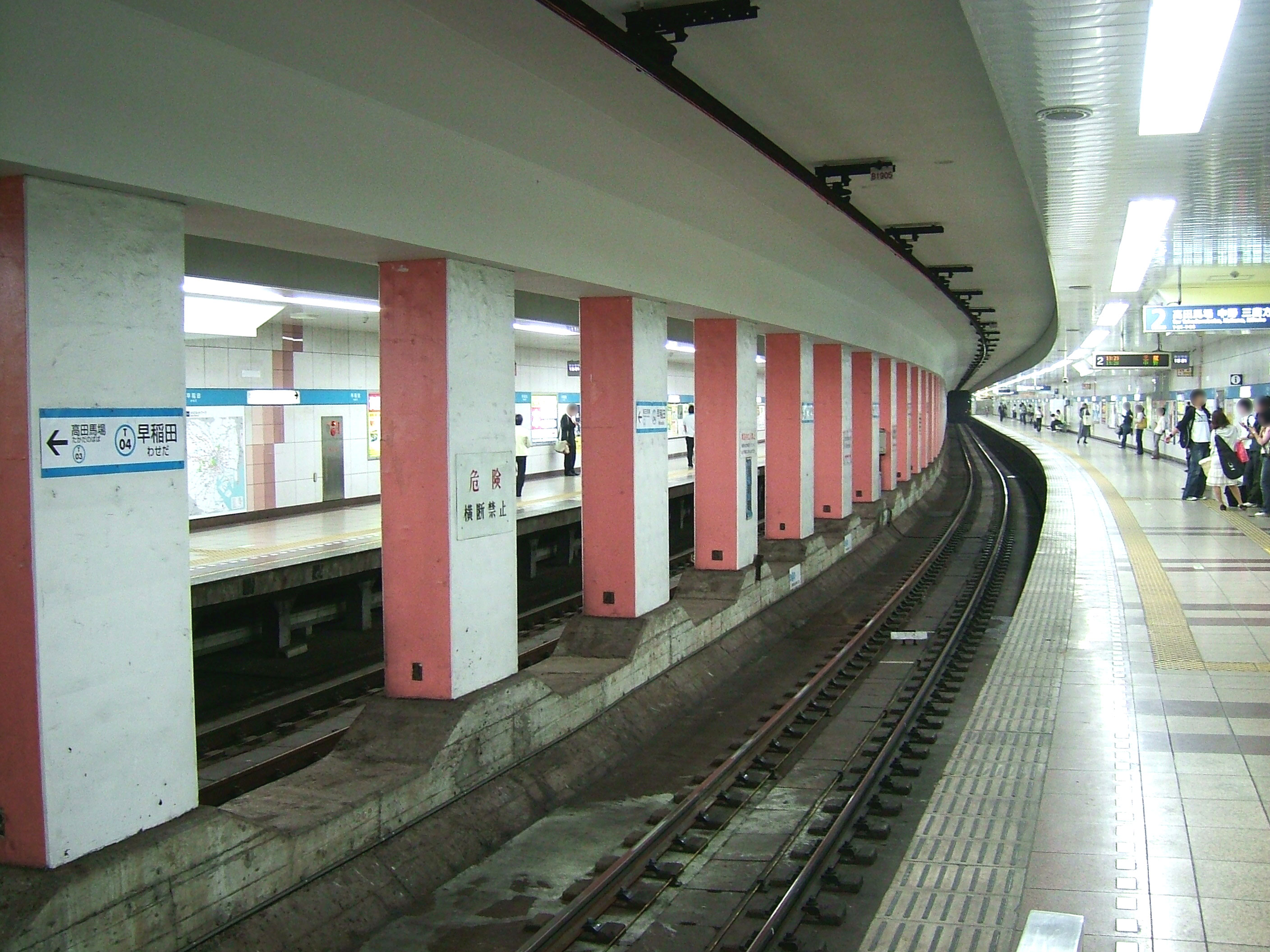 The platforms at Waseda Station on the Tokyo Metro Tōzai Line in Shinjuku city, Tokyo, Japan